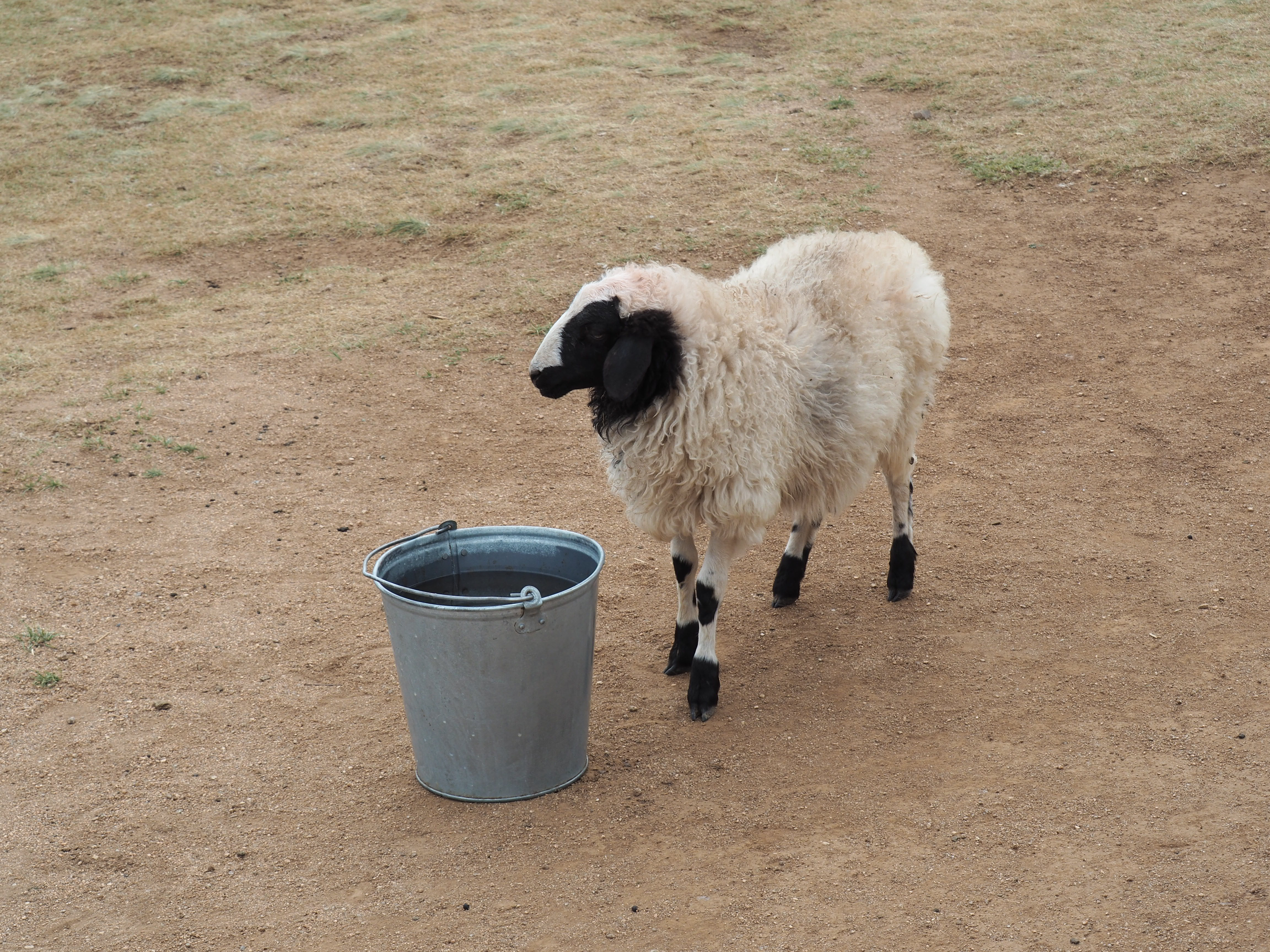 13th Century Park